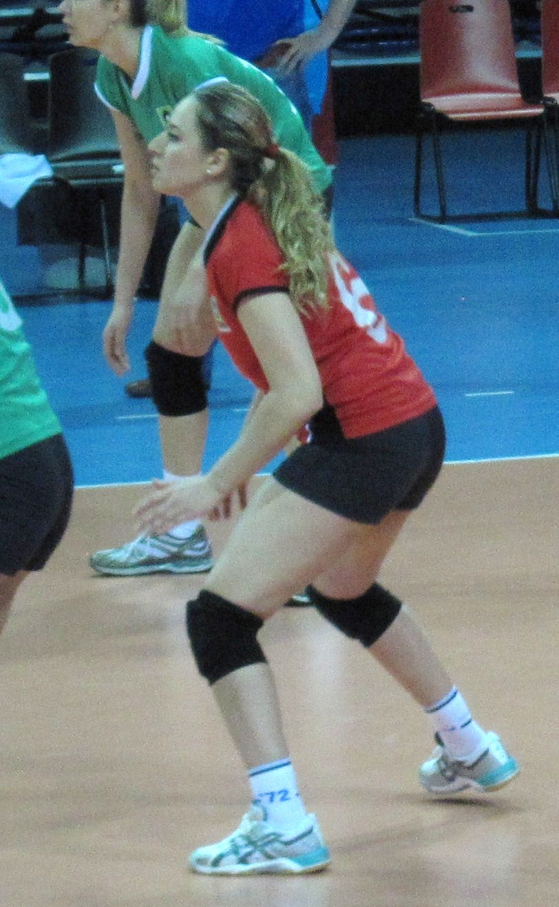 Turkish volleyball player Derya Çayırgan